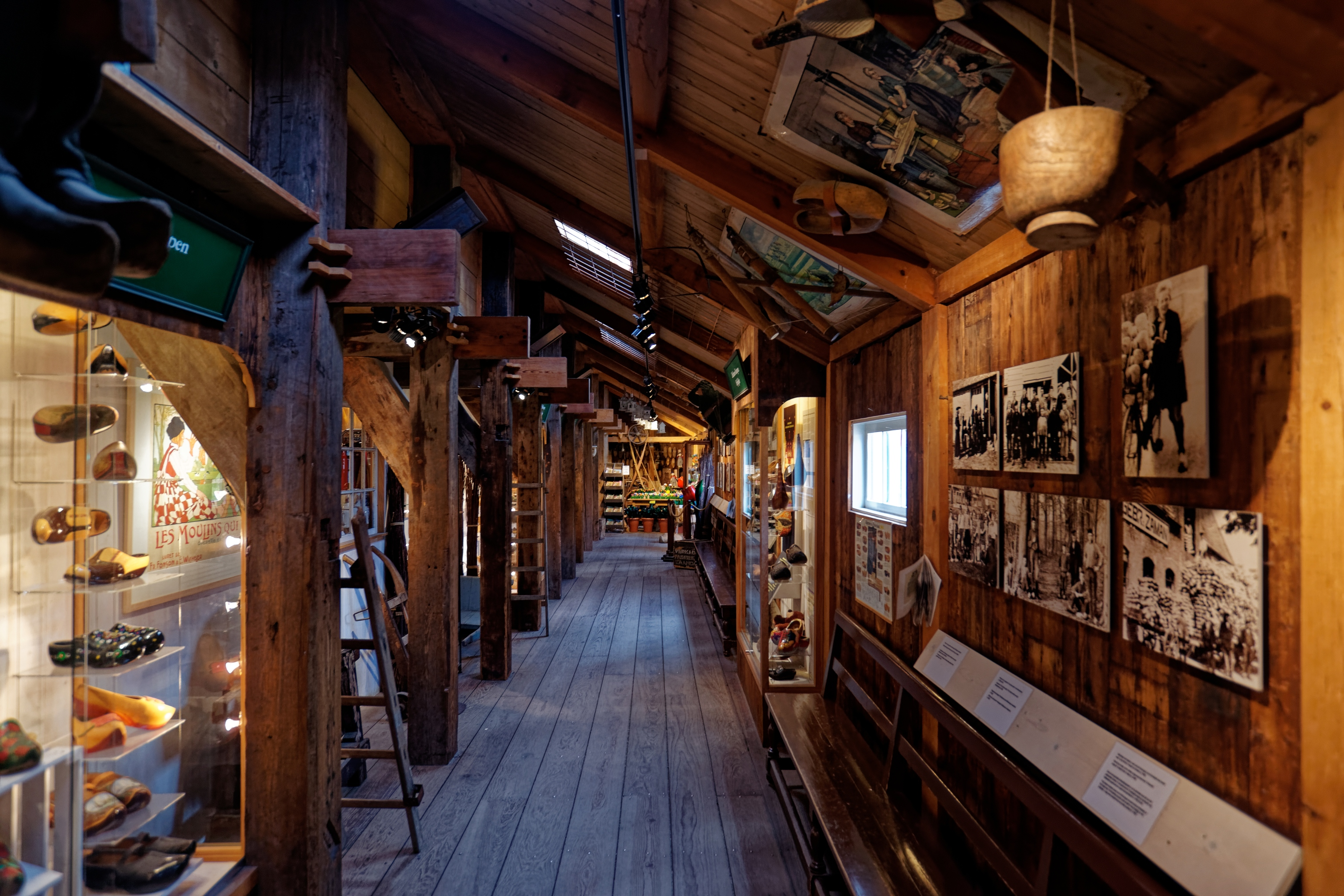 Zaandijk - Zaanse Schans - Wooden Shoe Work Shop - Museum of Clogs / Klompenmuseum - View West